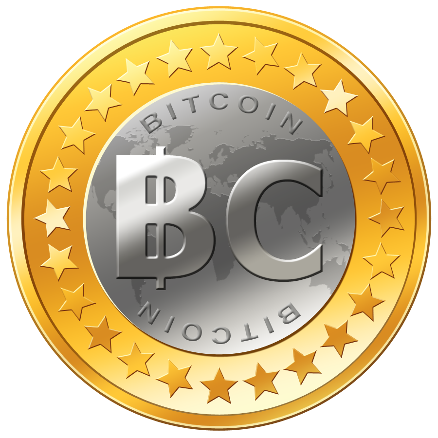 Bitcoin is a peer-to-peer cryptocurrency payment system introduced as open source software in 2009. It is referred to as a virtual currency, electronic money, or a cryptocurrency because cryptography is used to control its creation and transfer.